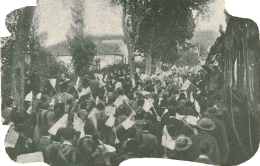 Royal train on the Braga railway station, during a visit of the king D. Manuel II to northern Portugal, in 1908. This image was published on the Ilustração Portuguesa magazine No. 144 (II Series), of the 23rd November 1908, and scanned by the Hemeroteca Municipal de Lisboa.